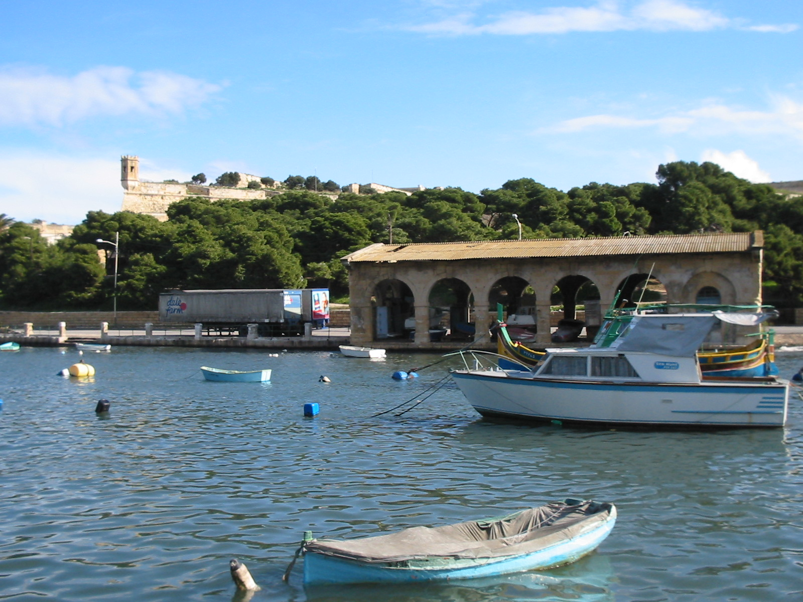 This is a picture I took on Christmas Day 2003, showing the boathouse at Xatt it-Tiben in Floriana (NOT Pieta!) on the waterfront.